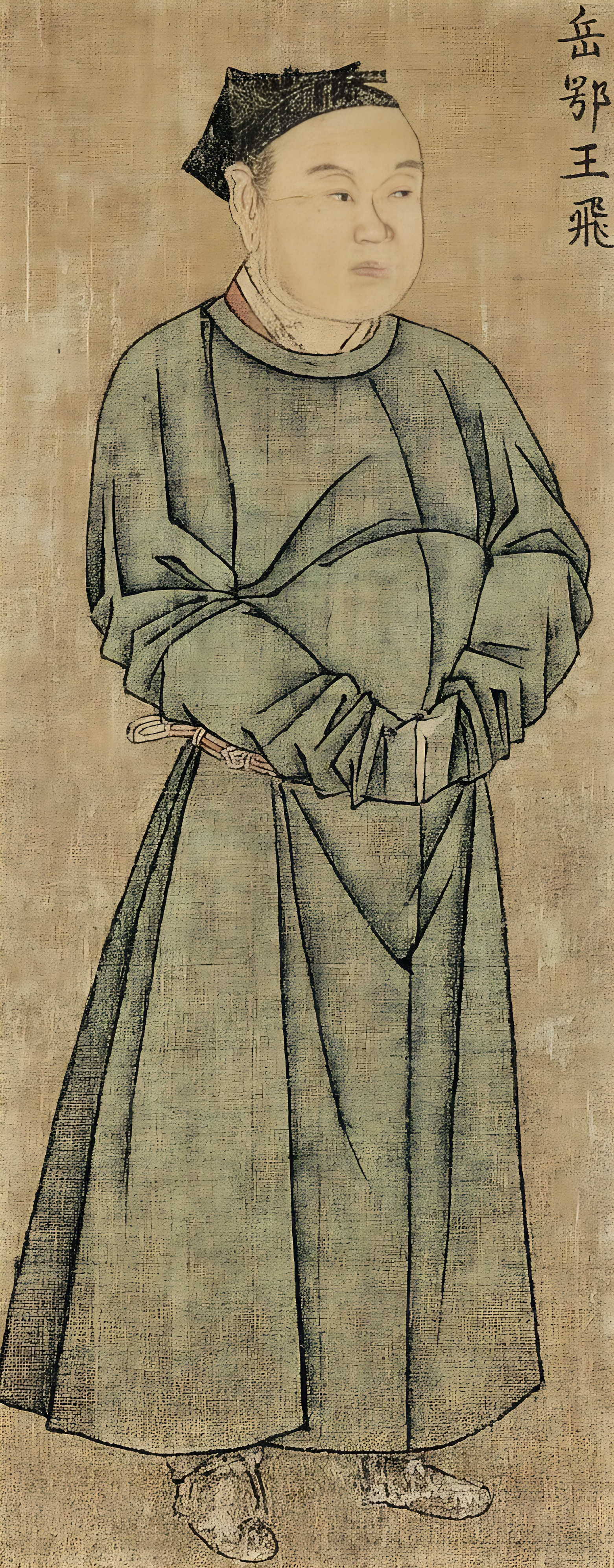 Contemporary painting of Yue Fei